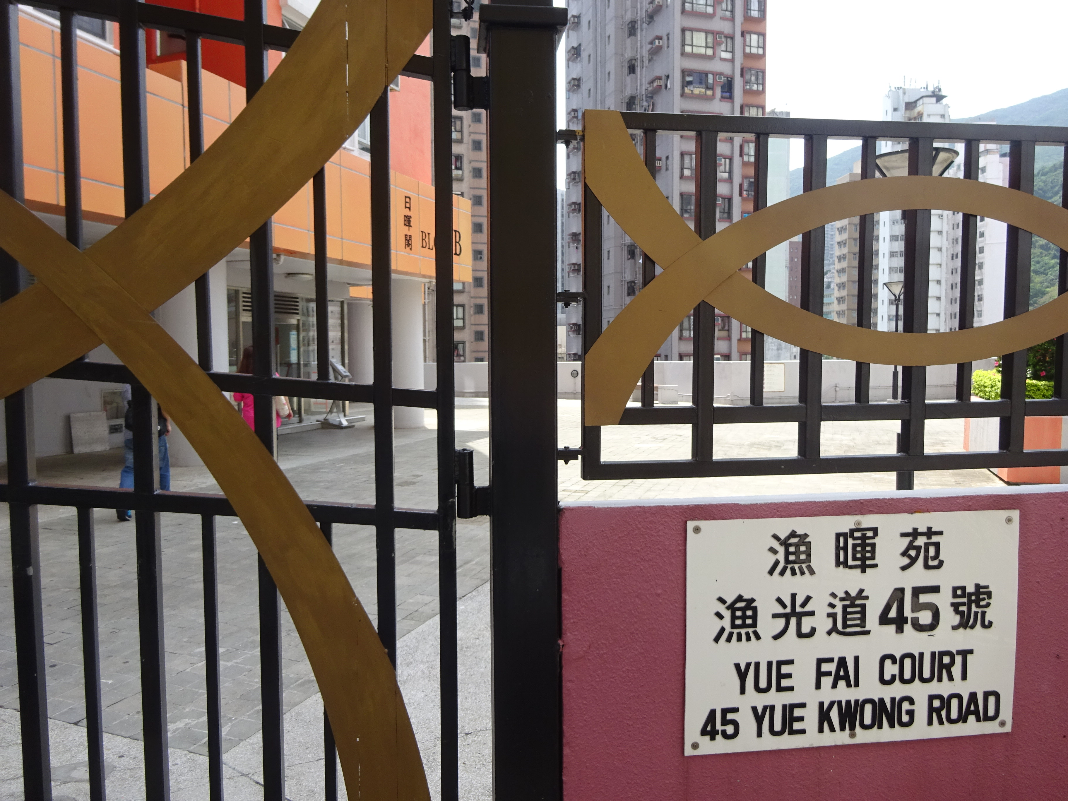 HK Aberdeen 石排灣 Shek Pai Wan 漁光道 Yue Kwong Road in May 2016